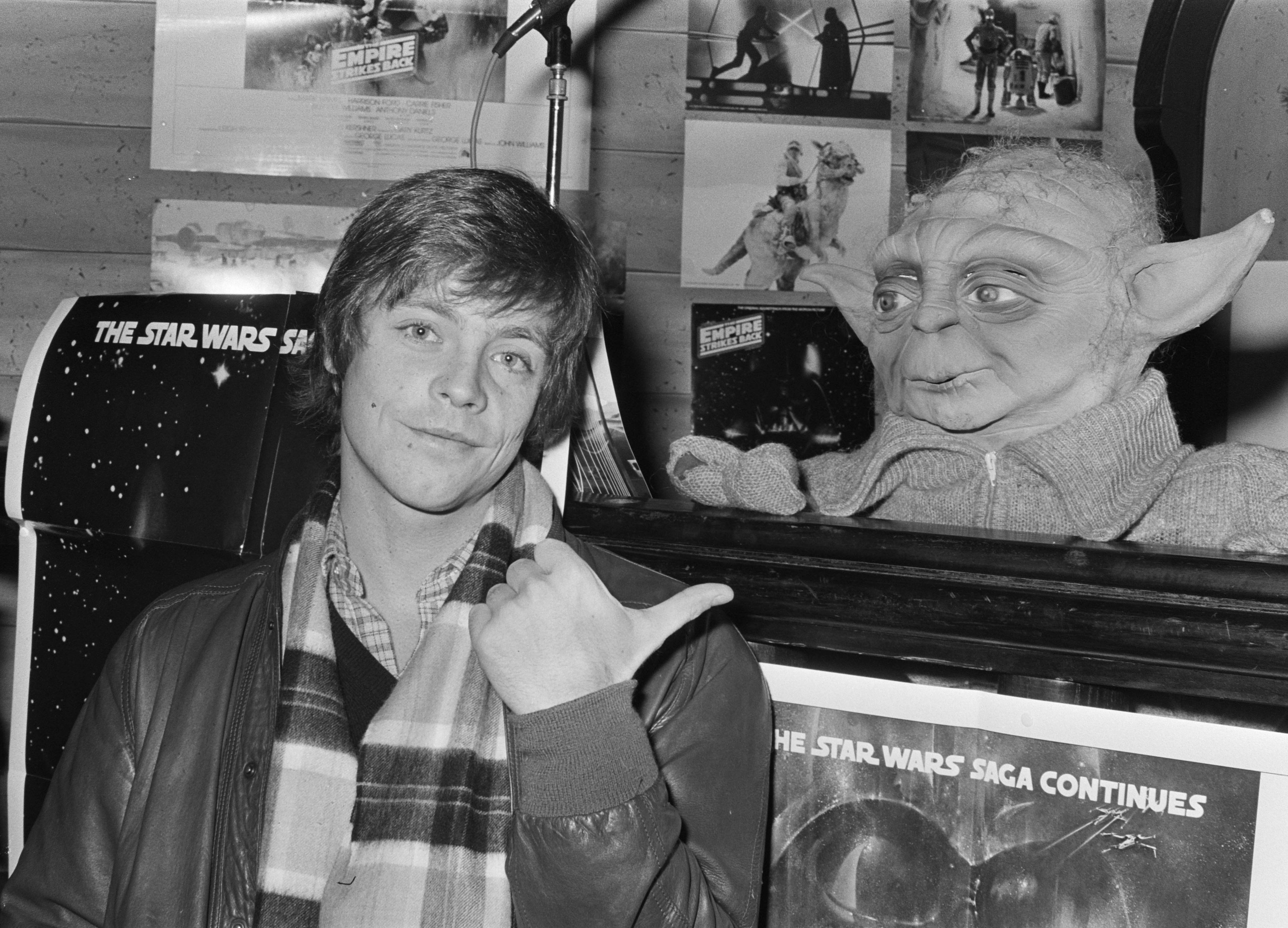 American actor Mark Hamill playing the role of Luke Skywalker in the movie "The Empire Strikes Back" following a press conference